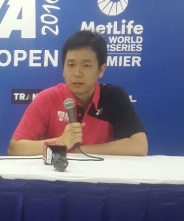 Hendra Setiawan during a press conference at 2016 Indonesia Open Super Series Premier